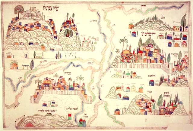 Holy Cities Plaque (Palestine, nineteenth century). Depicting the four Holy Cities of the Holy Land, this plaque is divided into four quadrants, with Jerusalem occupying by far the largest area in the upper right quadrant. Below Jerusalem, is Hebron. Dividing the drawing roughly down the center is the Jordan River. In the top left quadrant -- higher even than Jerusalem -- is Safed; and directly below it, we find Tiberias. Each of the four cities includes representations of the sacred shrines, as well as the graves of sainted rabbis and holy men.